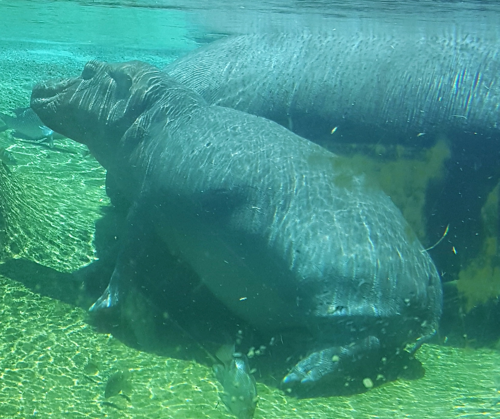 Fiona nuzzling her mother, Bibi, in her tank at the Cincinnati Zoo and Botanical Garden, in Cincinnati, Ohio.